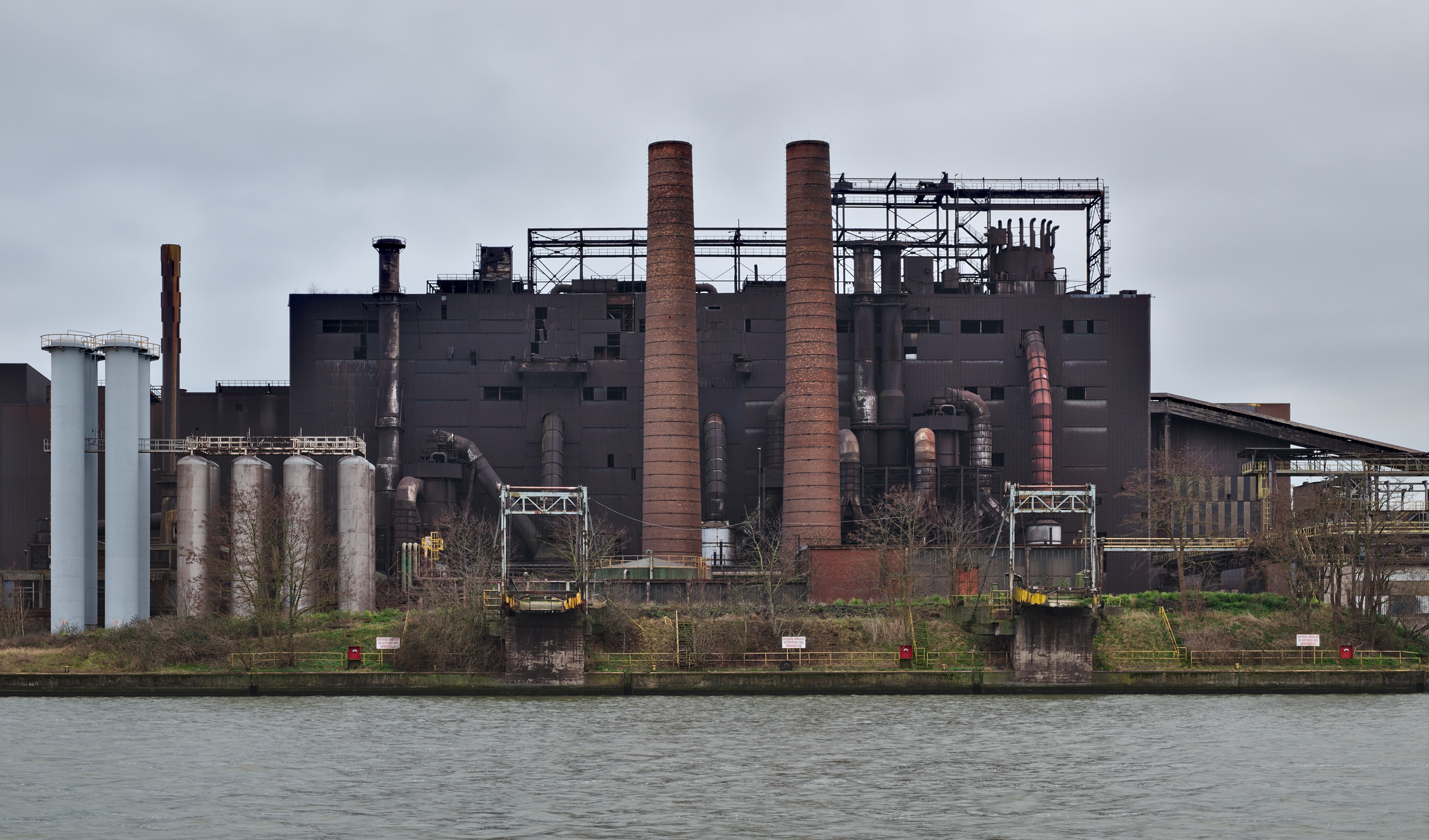 Abandoned Chertal steel factory in Oupeye, Belgium (DSCF3315)